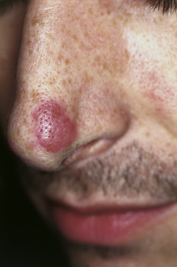 Facial eosinophilic granuloma. Red-brown nodule on the nose. Clearly visible follicular structures ("peau d'orange"). Sand et al. Head & Face Medicine 2010 6:7